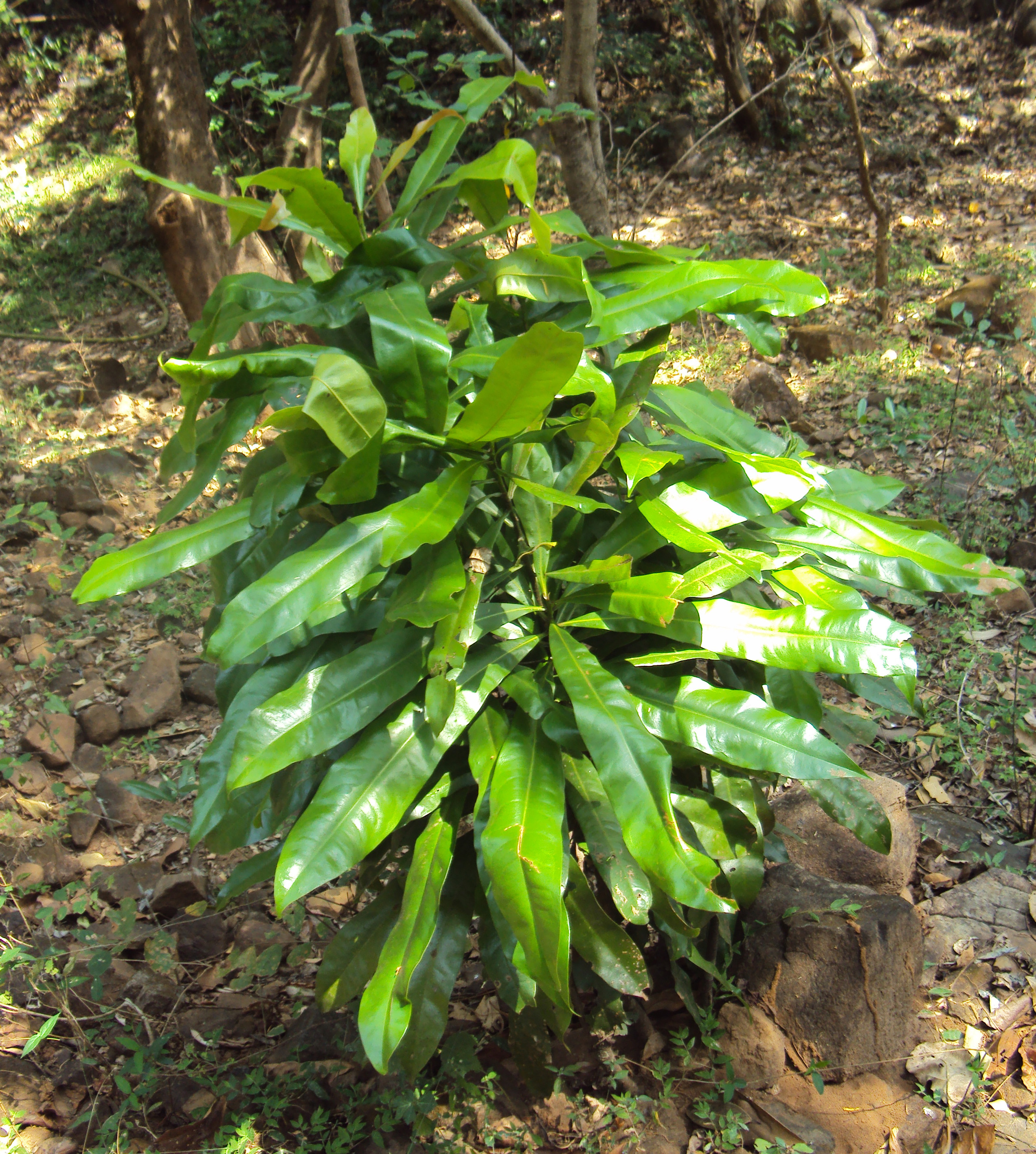 Ancistrocladus heyneanus